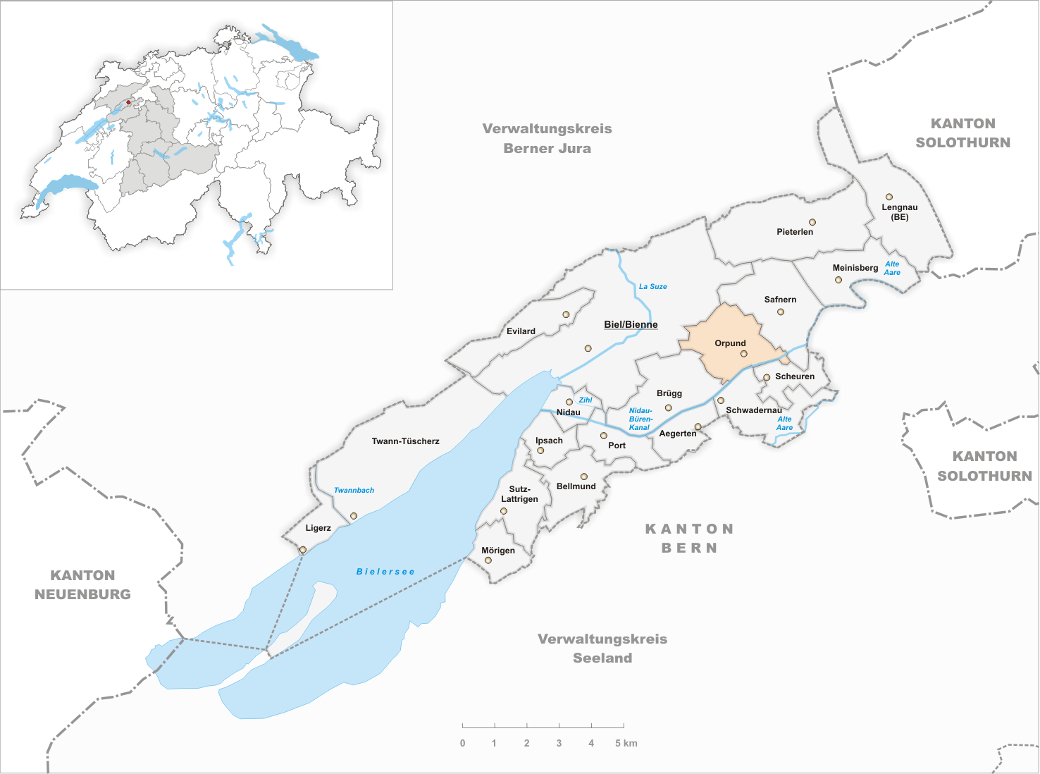 Municipality Orpund